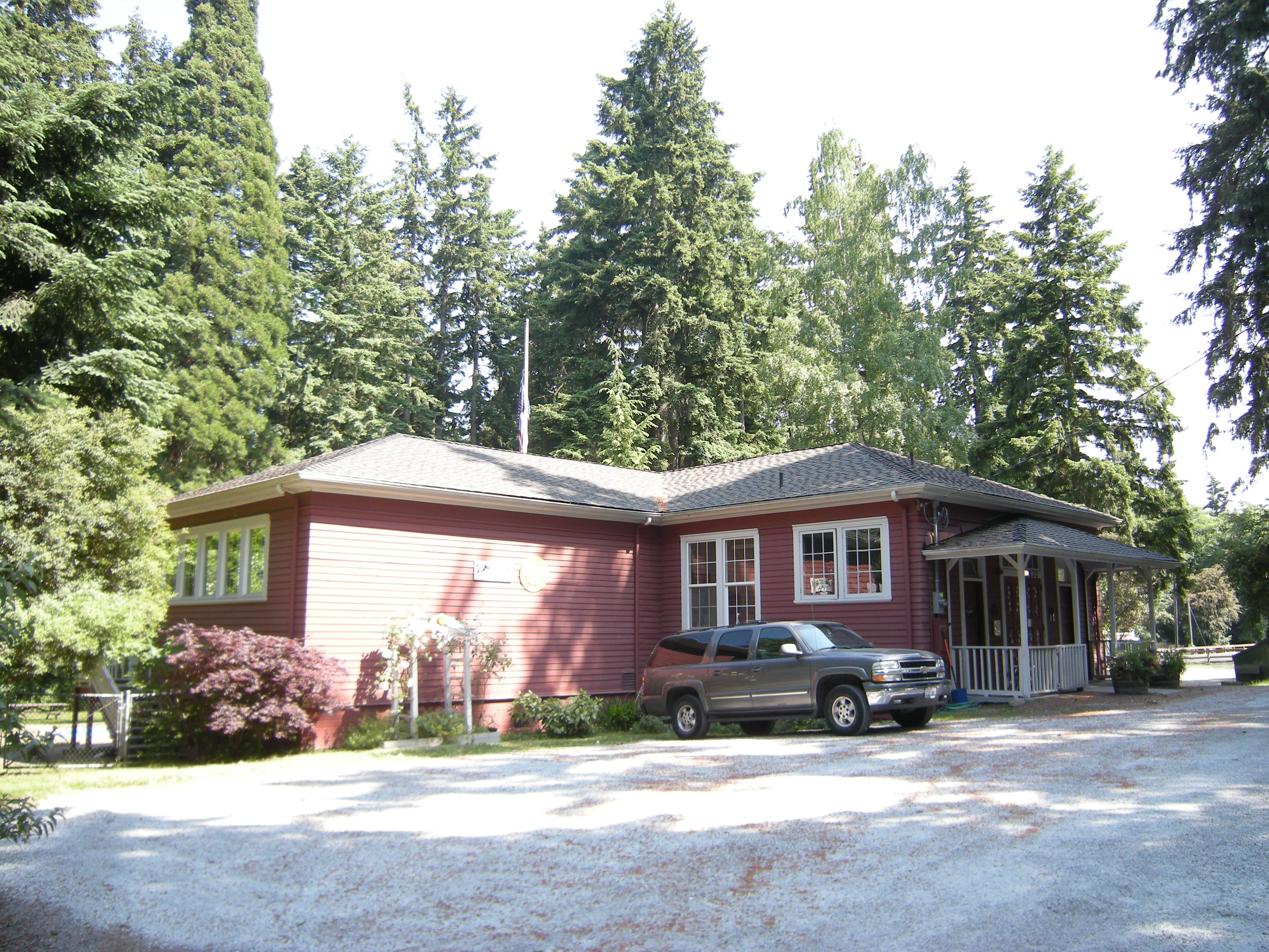 Former Lakeview School, now Sunnybeam School, Island Crest Way and S.E. 68th St., Mercer Island, Washington. The building is listed on the National Register of Historic Places.